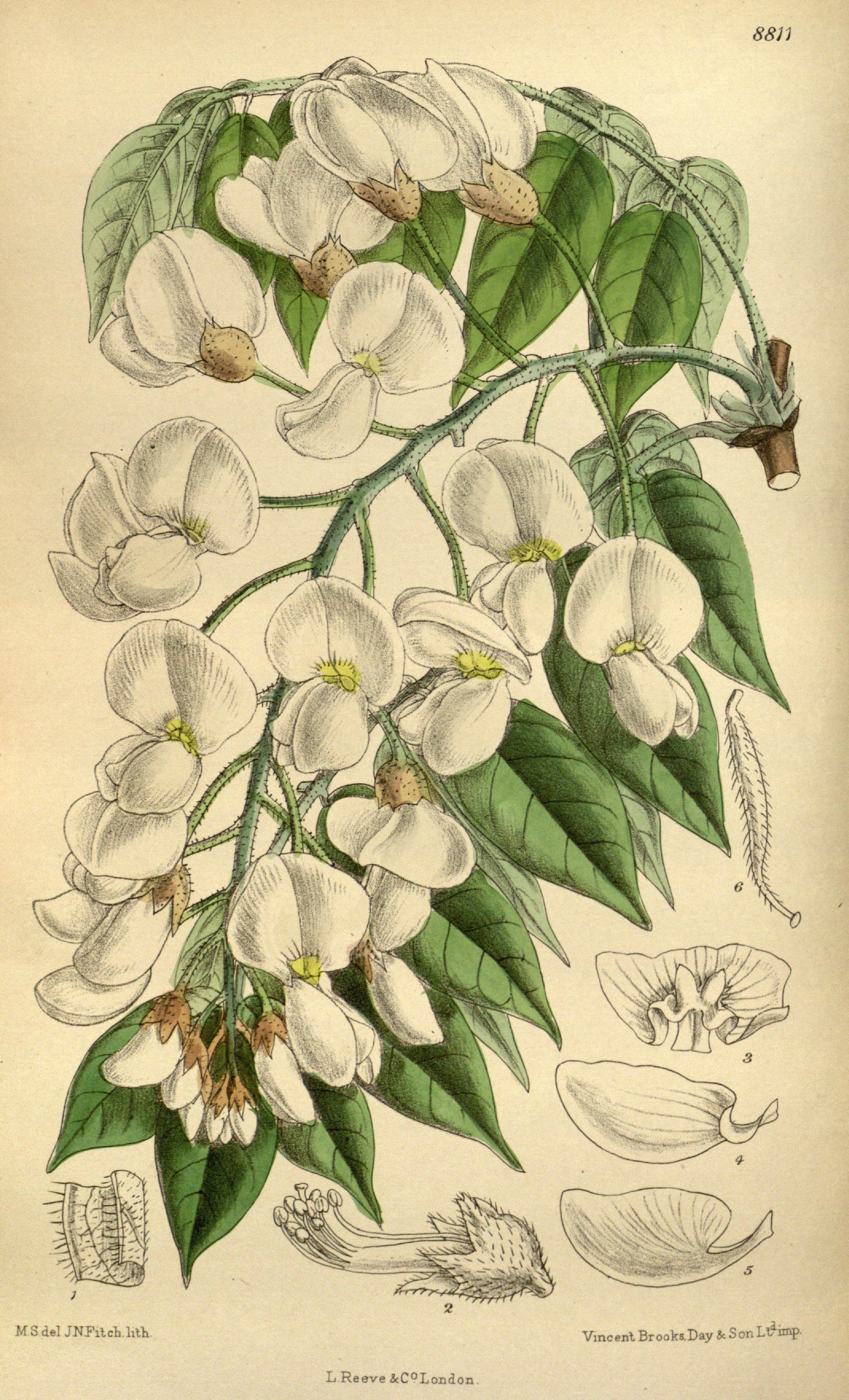 Wisteria venusta (= Wisteria brachybotrys), Fabaceae